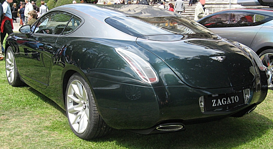 Subject:Bentley GTZ (2008), coachbuilding by Zagato Date:April 27th, 2008 Event:Concorso d’Eleganza”Villa d’Este” 2008 Place/Country: Cernobbio (CO), Italy I release all rights in the public domain.